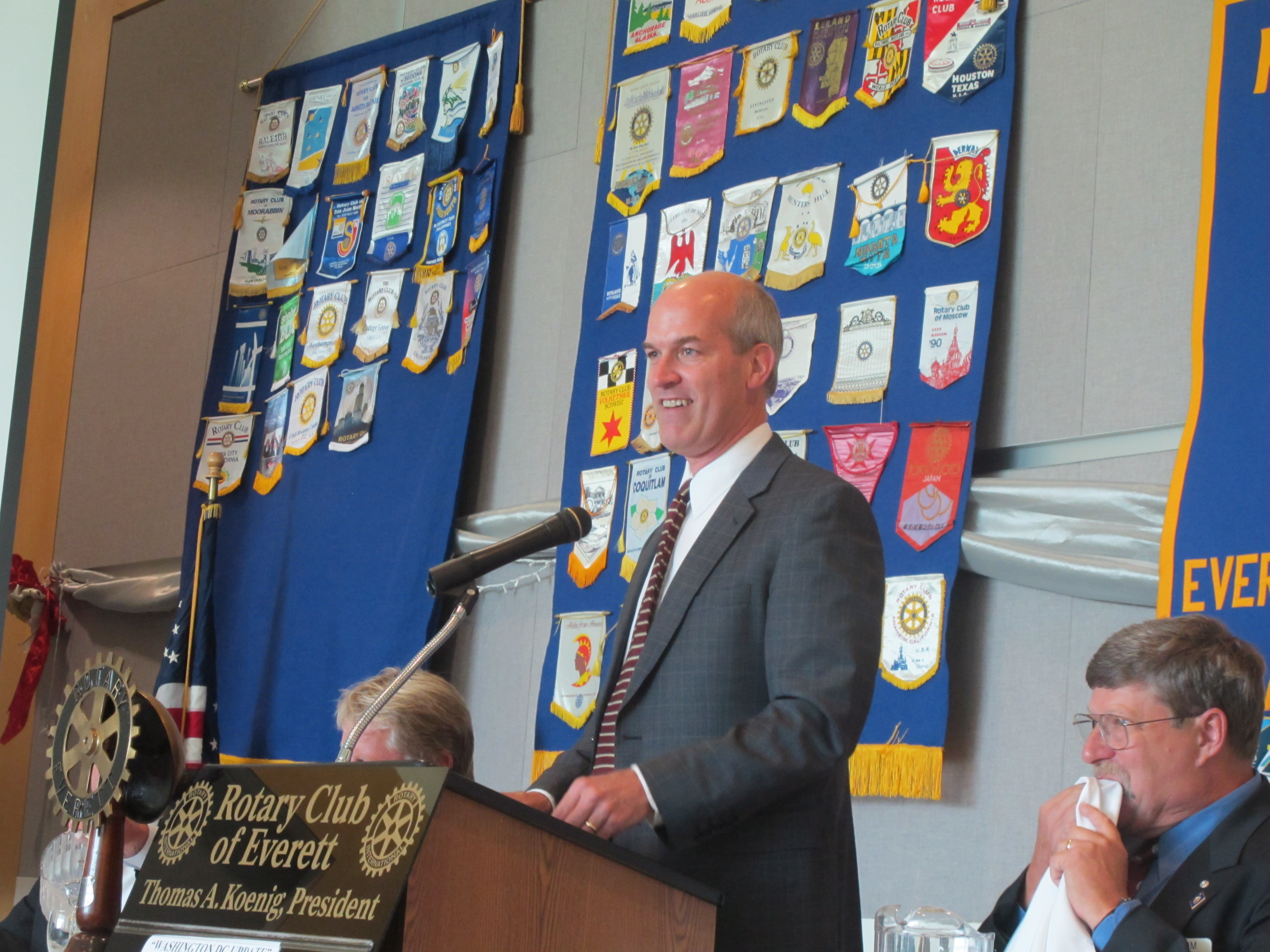 Rep. Rick Larsen speaks to the Everett (Wash.) Rotary in the Grand Vista Ballroom of Naval Station Everett in late August 2011.